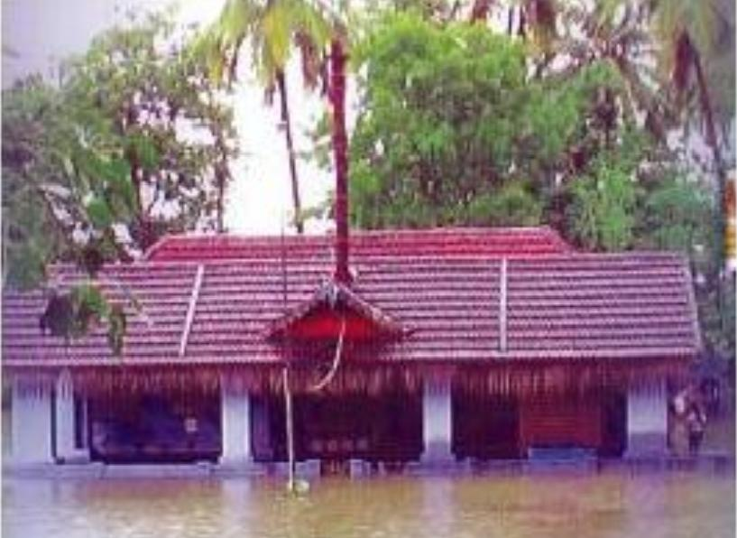 Picture of Pokkunniappan temple